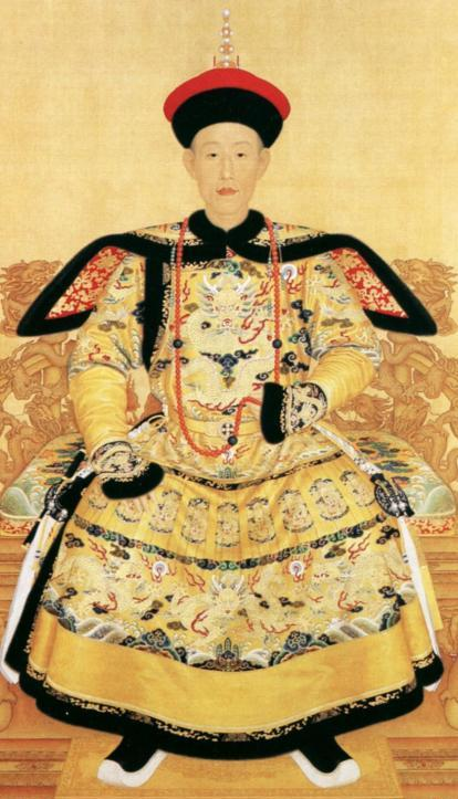 The Qianlong Emperor